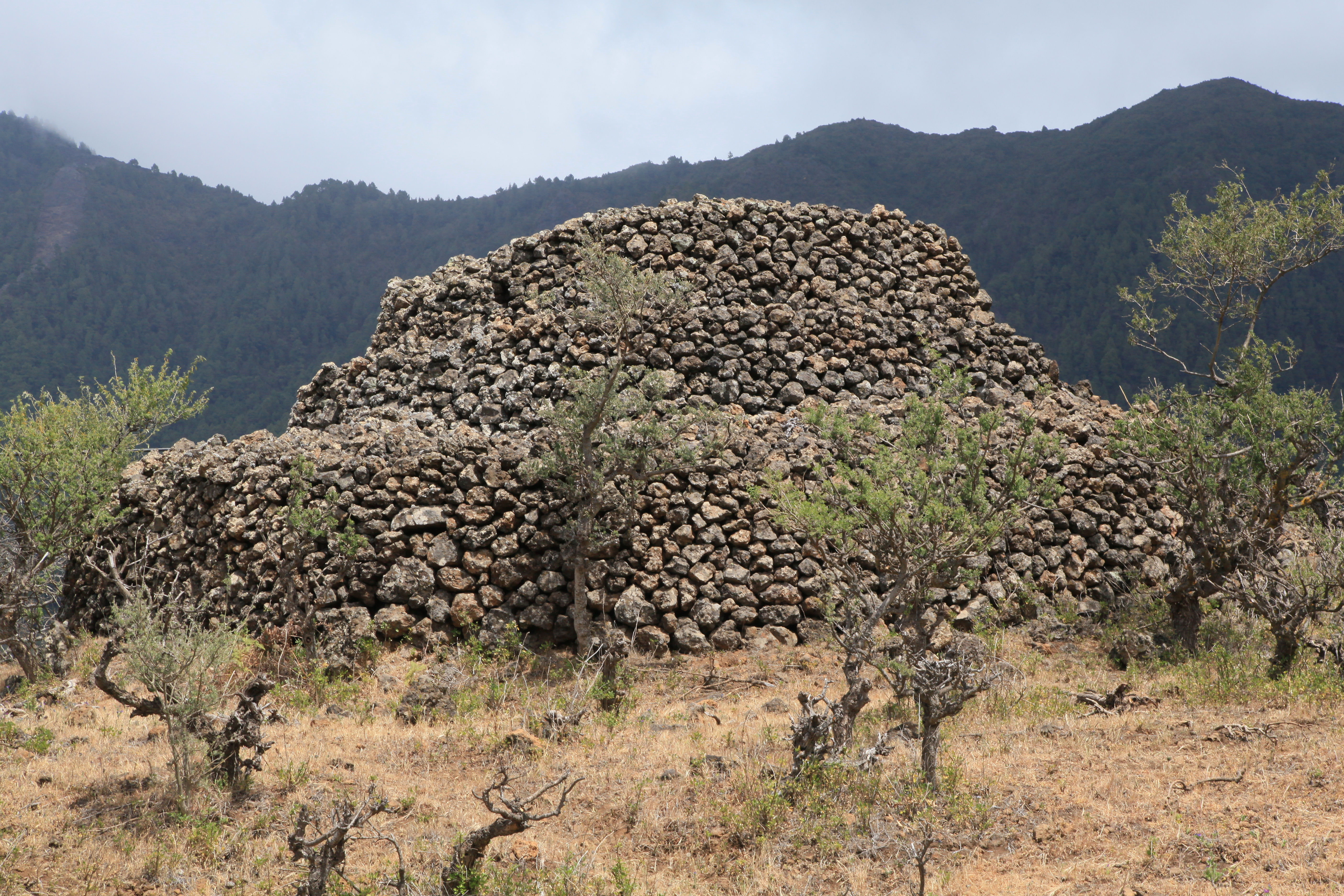 El Paso round pyramid, LP-3 in El Paso (La Palma), La Palma, Canary Island, Spain